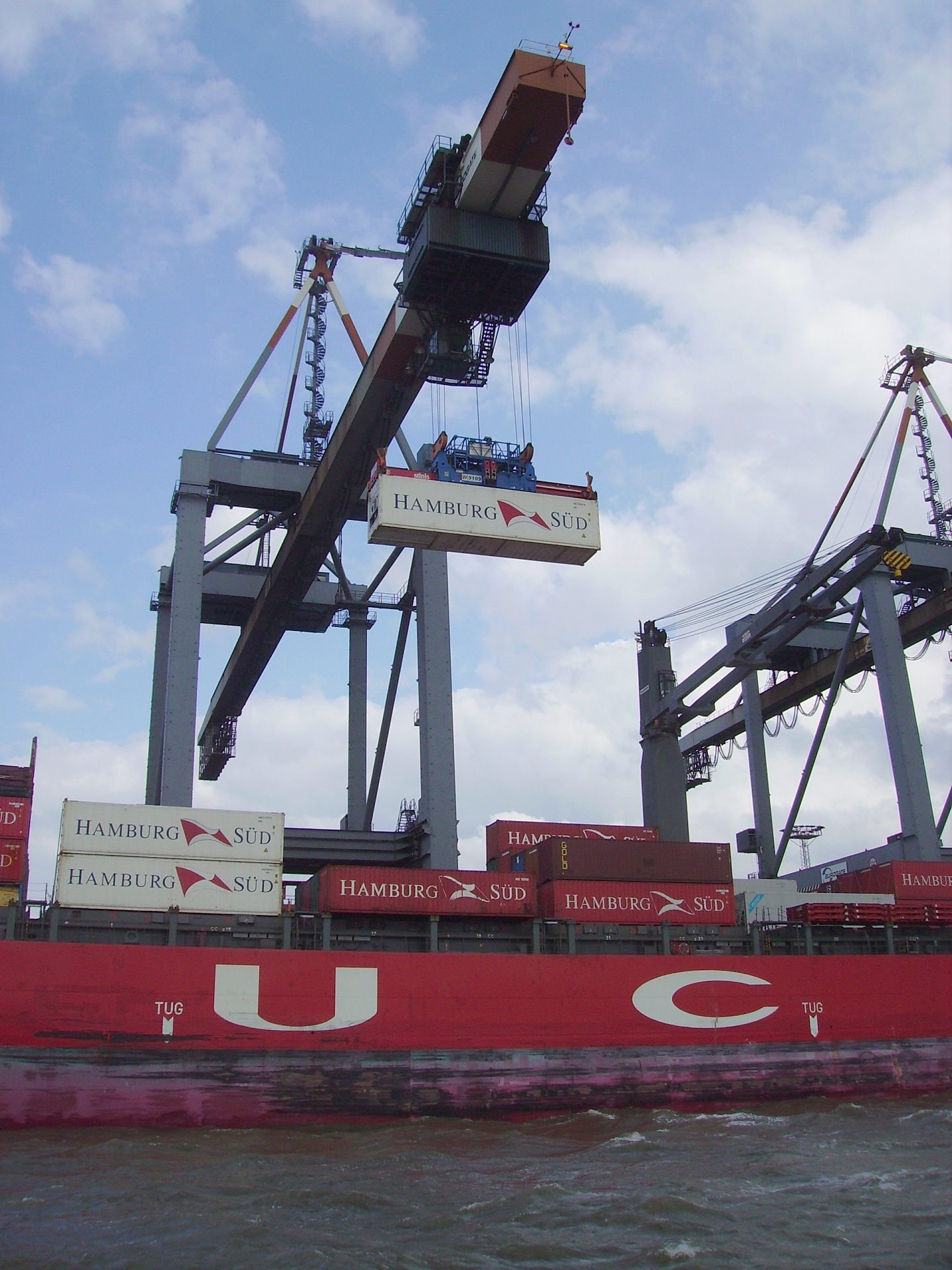 A container of the German shipping company Hamburg-Süd is being loaded on a container ship